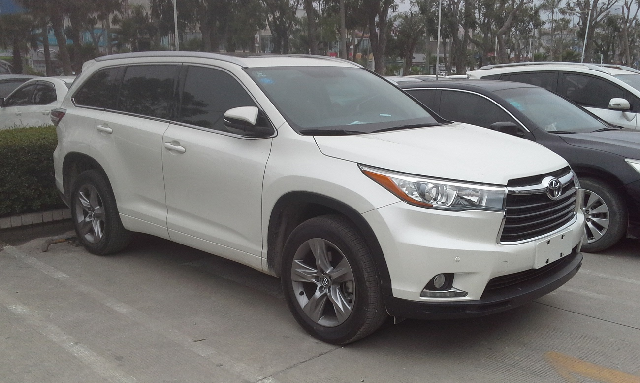 Toyota Highlander XU50 photographed in Zhanjiang, Guangdong province, China.